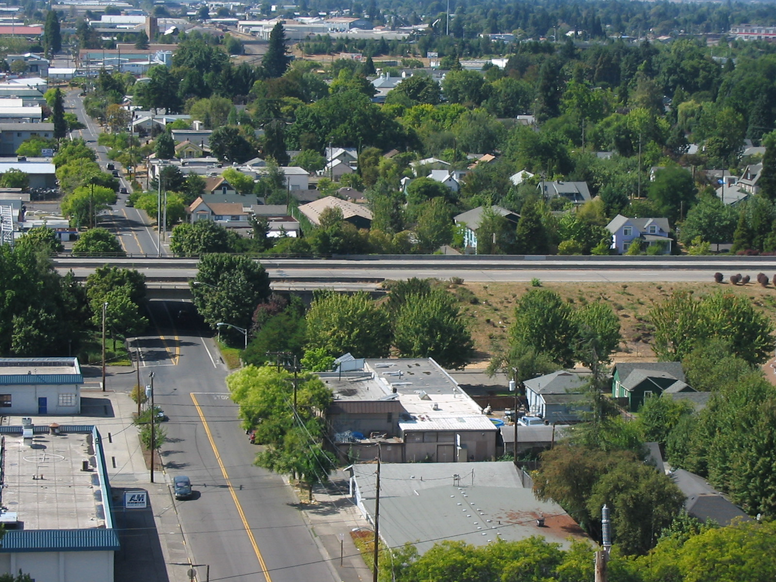 The Interstate 105 overpass over First Ave. in Eugene, Oregon, as seen from the west side of Skinner’s Butte. From here, you can see a ghost ramp which was supposed to provde access to the cancelled Roosevelt Freeway.